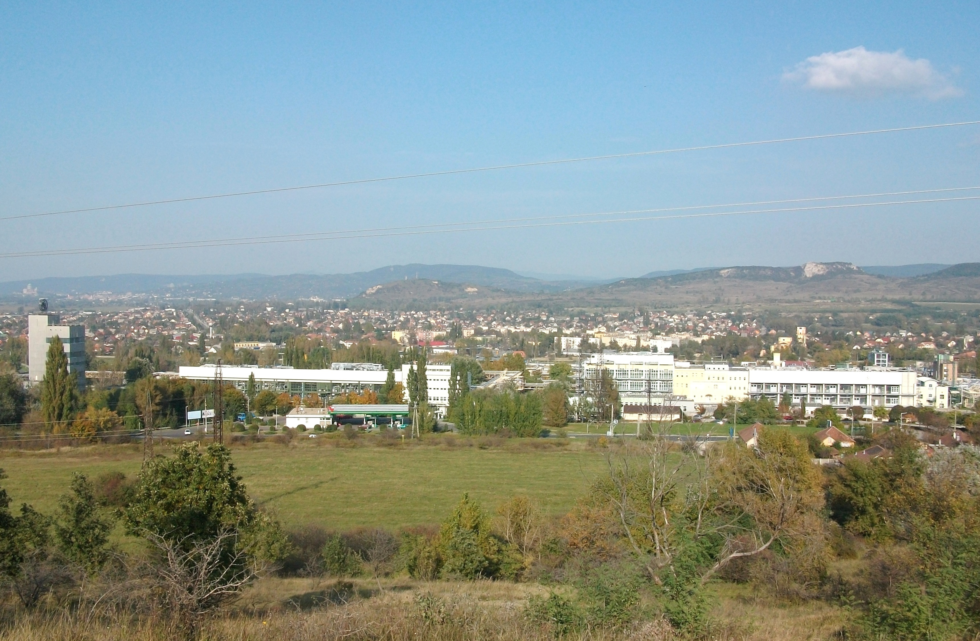 Plant of the Gedeon Richter Ltd. (pharmaceutical factory), Dorog, Hungary